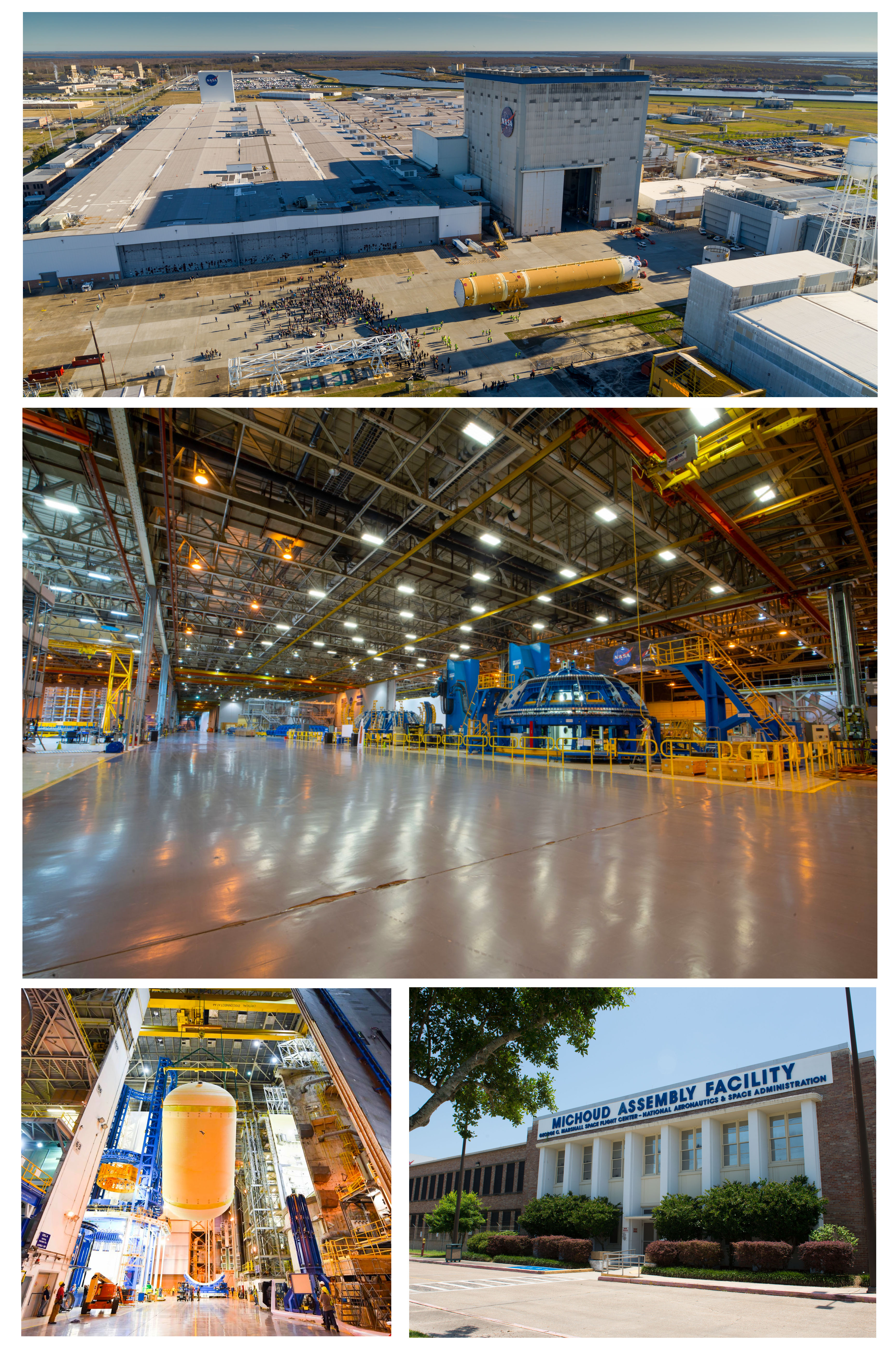 A composite collage of various areas of NASA's rocket factory complex